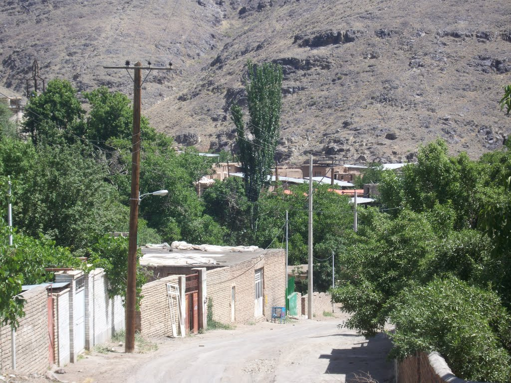 سار ورودی